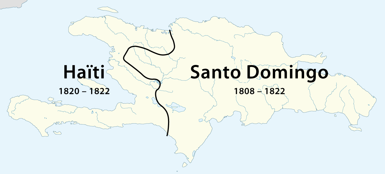 History of the teritorial changes of Hispaniola